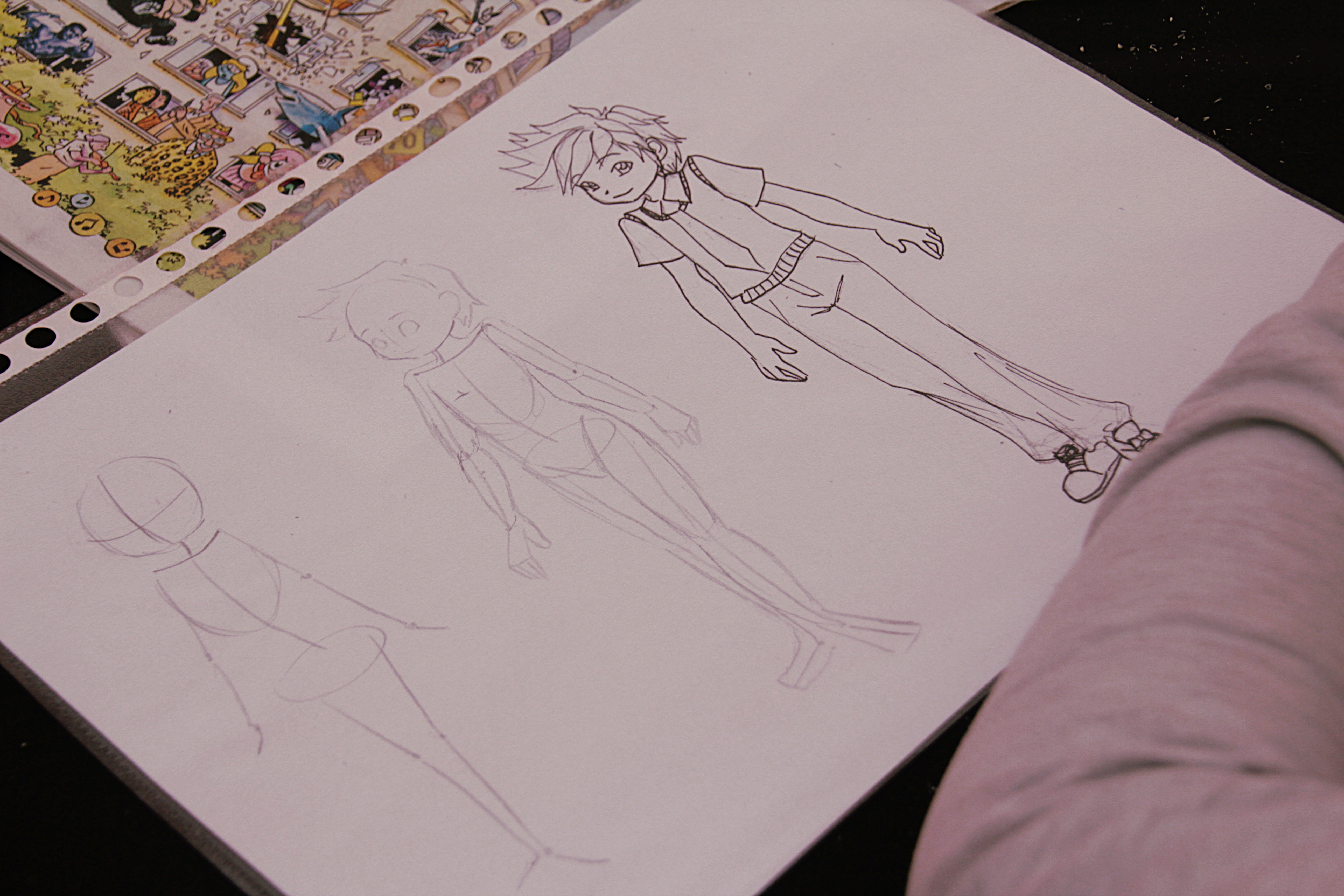 Taken at Belgotaku stand, Brussels comics strip festival.